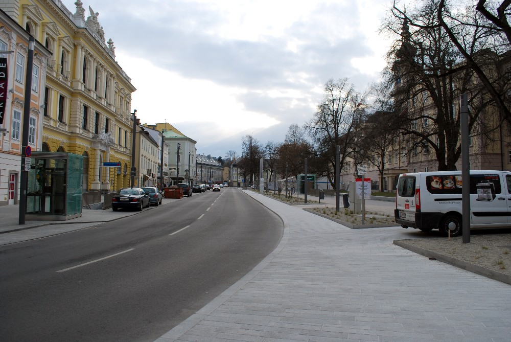 Street Promenade in Linz, Upper Austria, after recent erection of a subterranean garage. View heading west; on the left the headquarters of Sparkasse Oberösterreich, right the Landhaus and Landhauspark